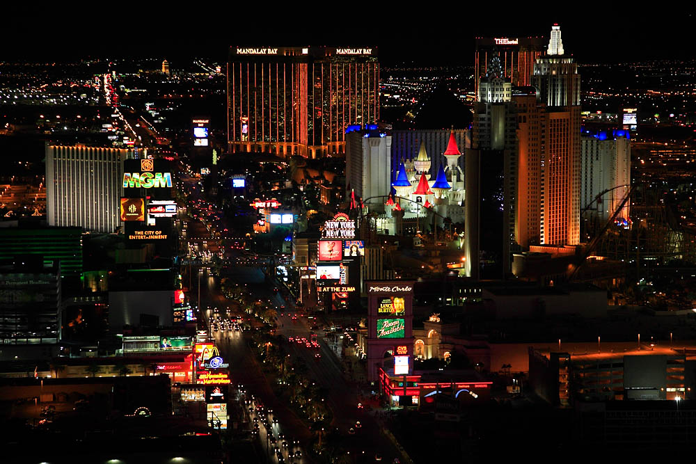 South end of the Vegas Strip, shot from the Eiffel Tower.